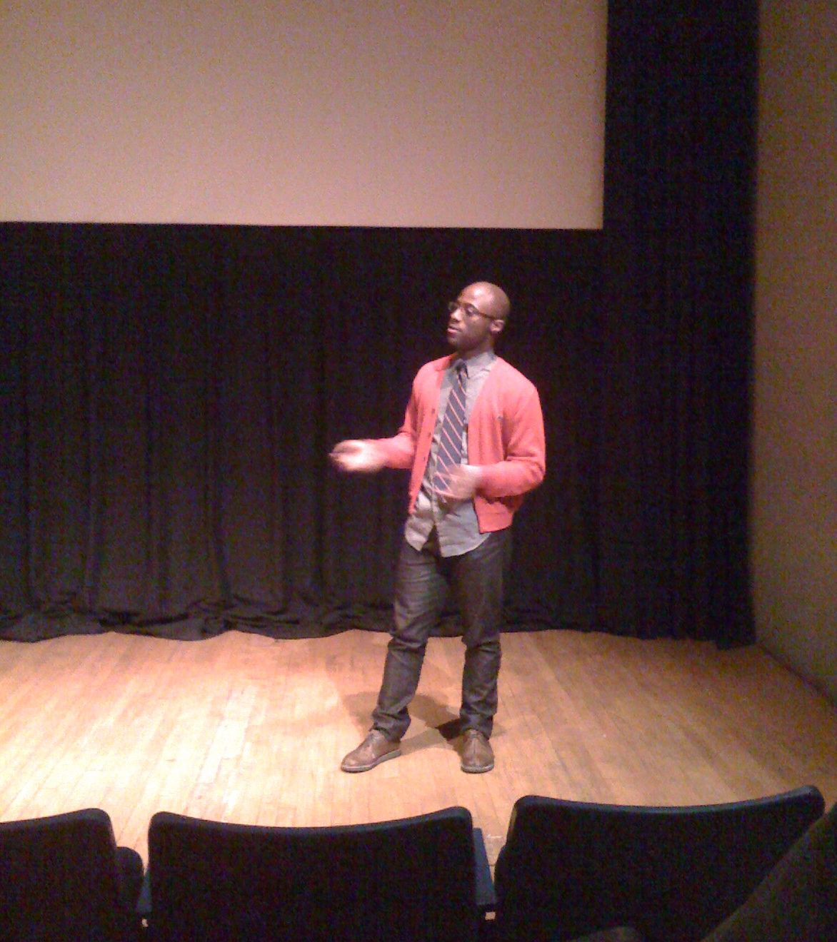 Speaking about his film Medicine for Melancholy at the Northwest Film Forum. Go see it!